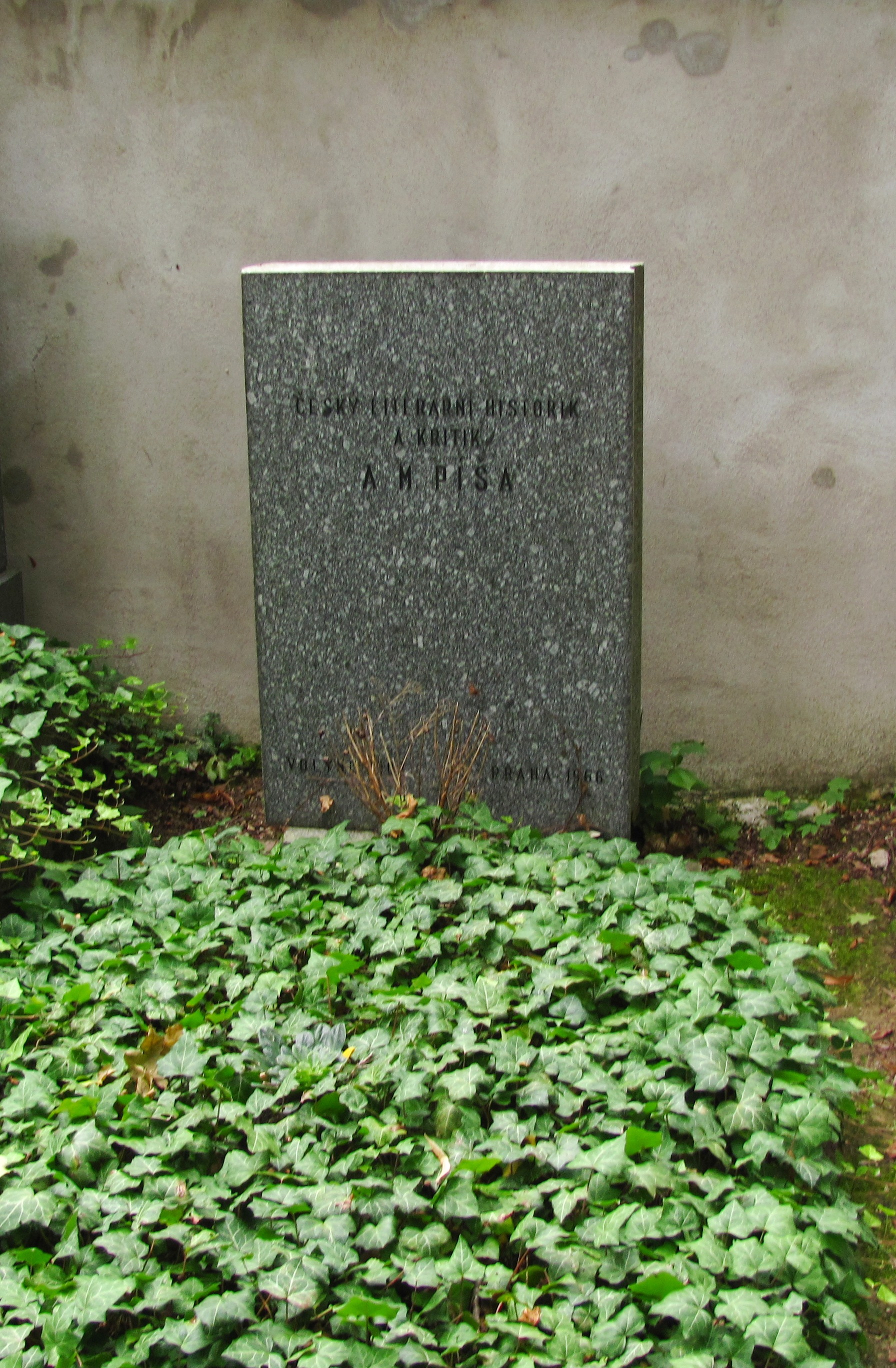 Tomb of A.M.Píša, Czech journalist (Šárka Cemetery, Prague)